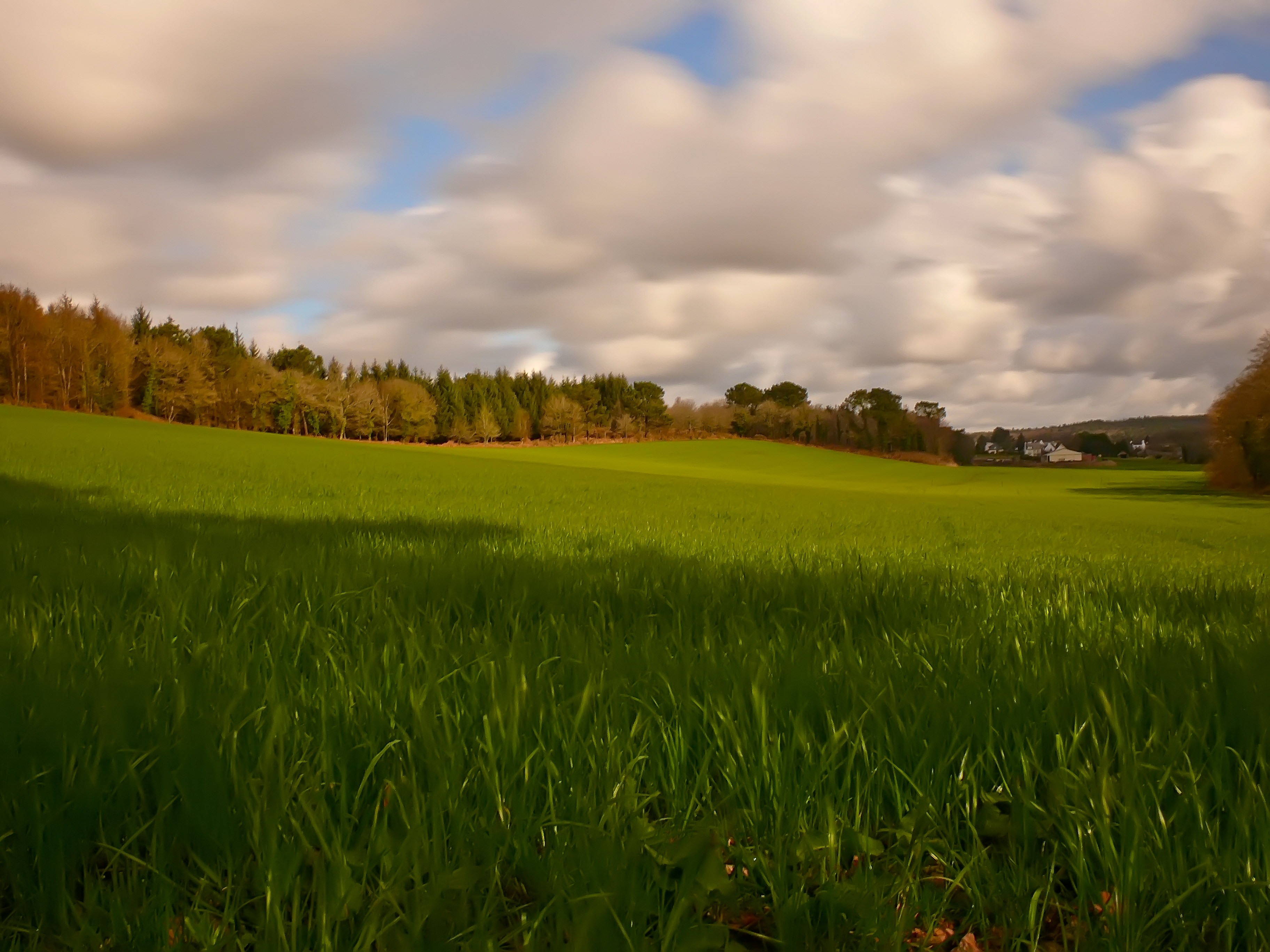 Field in Lanvaudan (Kergran), Brittany, France